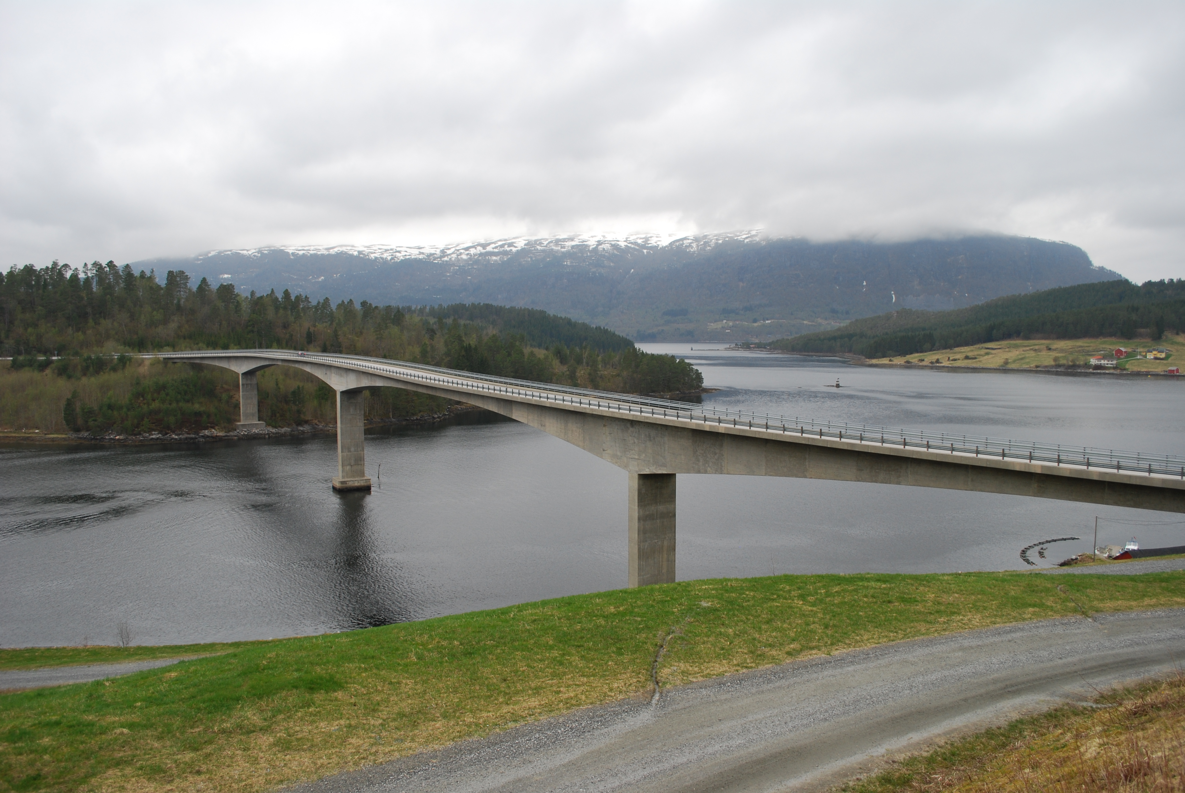 Valsøybrua in Halsa, Møre og Romsdal, Norway.